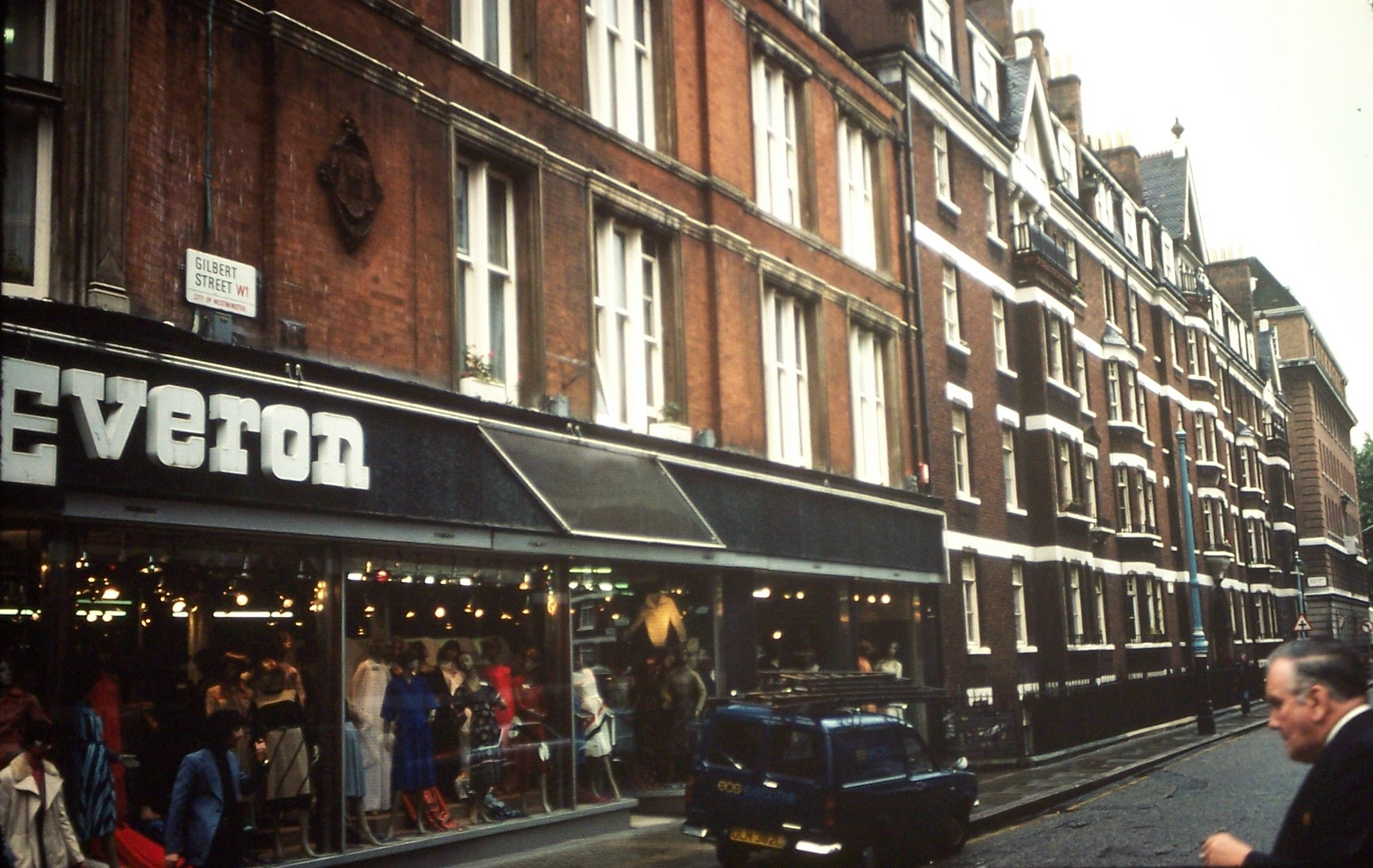 Gilbert Street in the Westminster section of London.